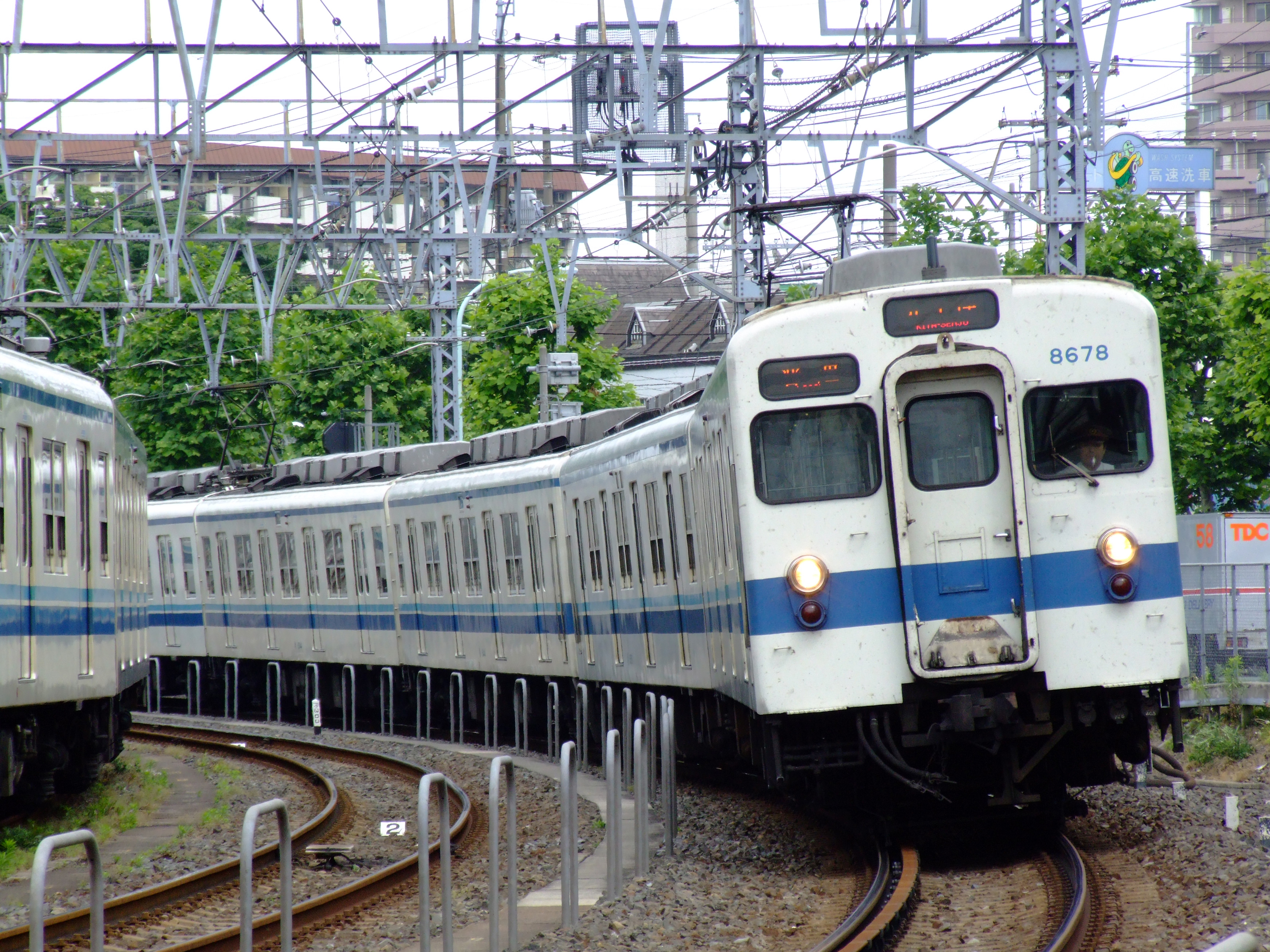 A Tobu Railway 8000 series EMU formation on the Tobu Isesaki Line led by 2-car set 8578